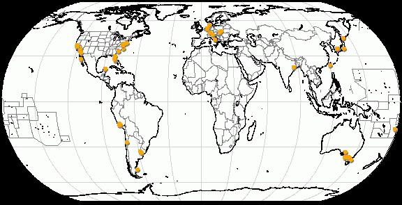 Isurus hastalis map